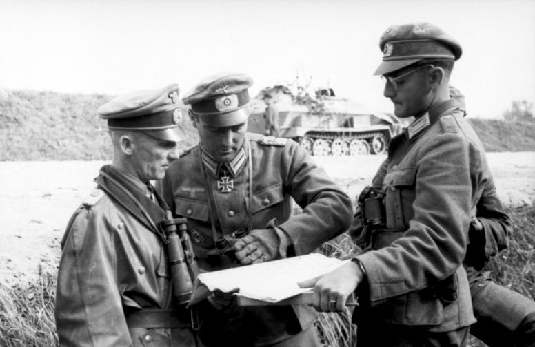 Information added by Wikimedia users.